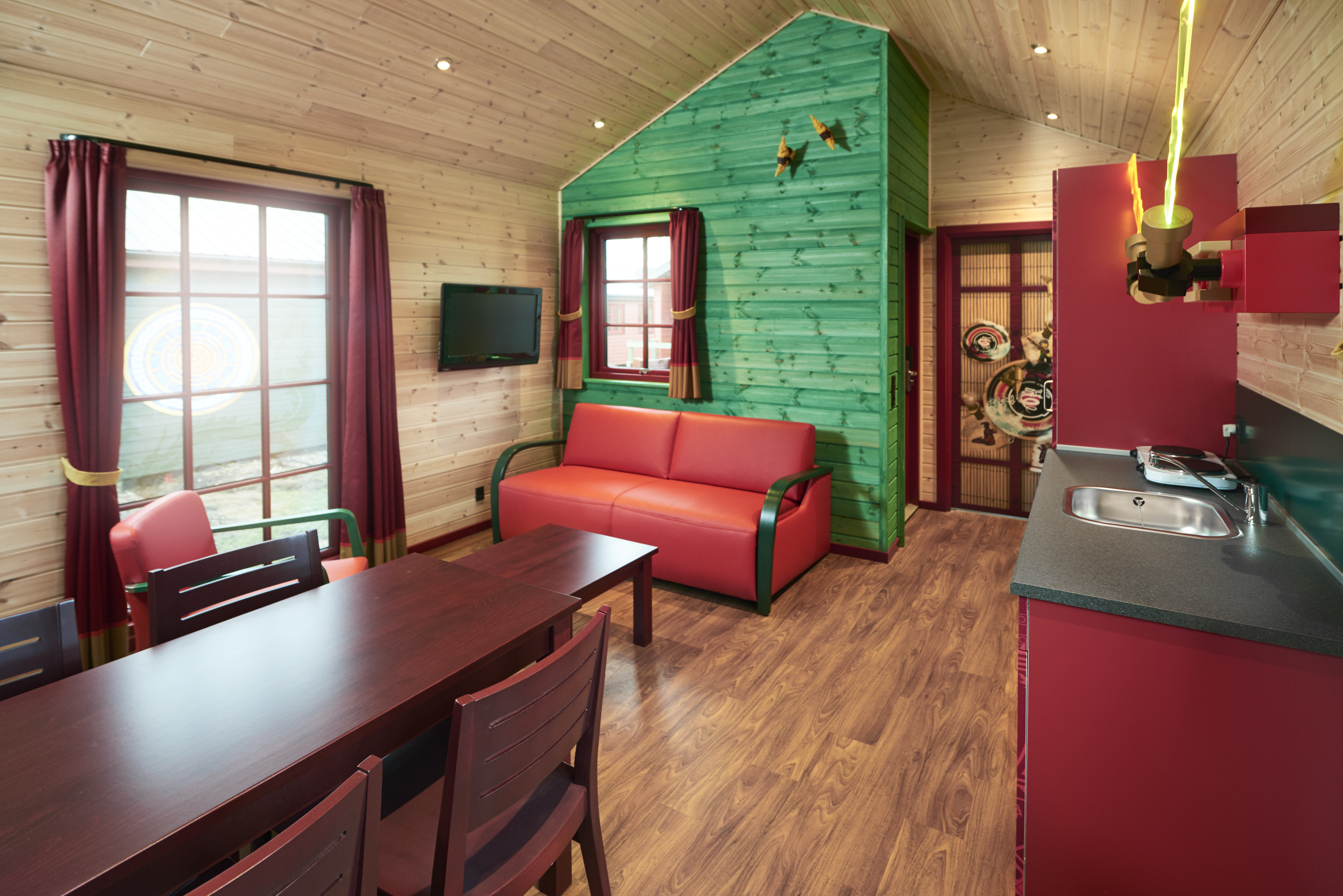 Interior of Lego Ninjago themed cabin in Legoland Holiday Village near the amusement park Legoland Billund Resort in Denmark.